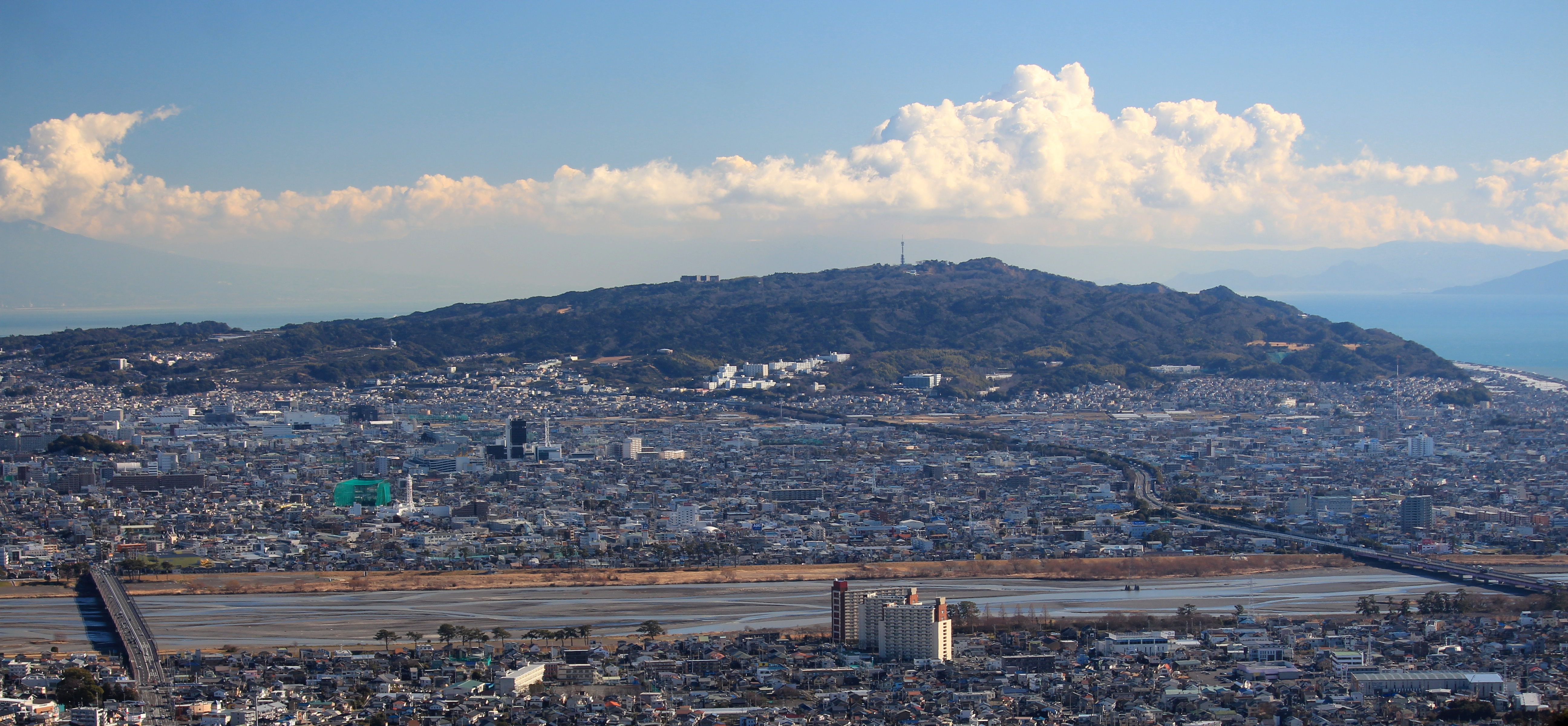 Nihondaira, Abe River and Tomei Expressway seen from Chōseniwa in Shizuoka city, Shizuoka prefecture, Japan.